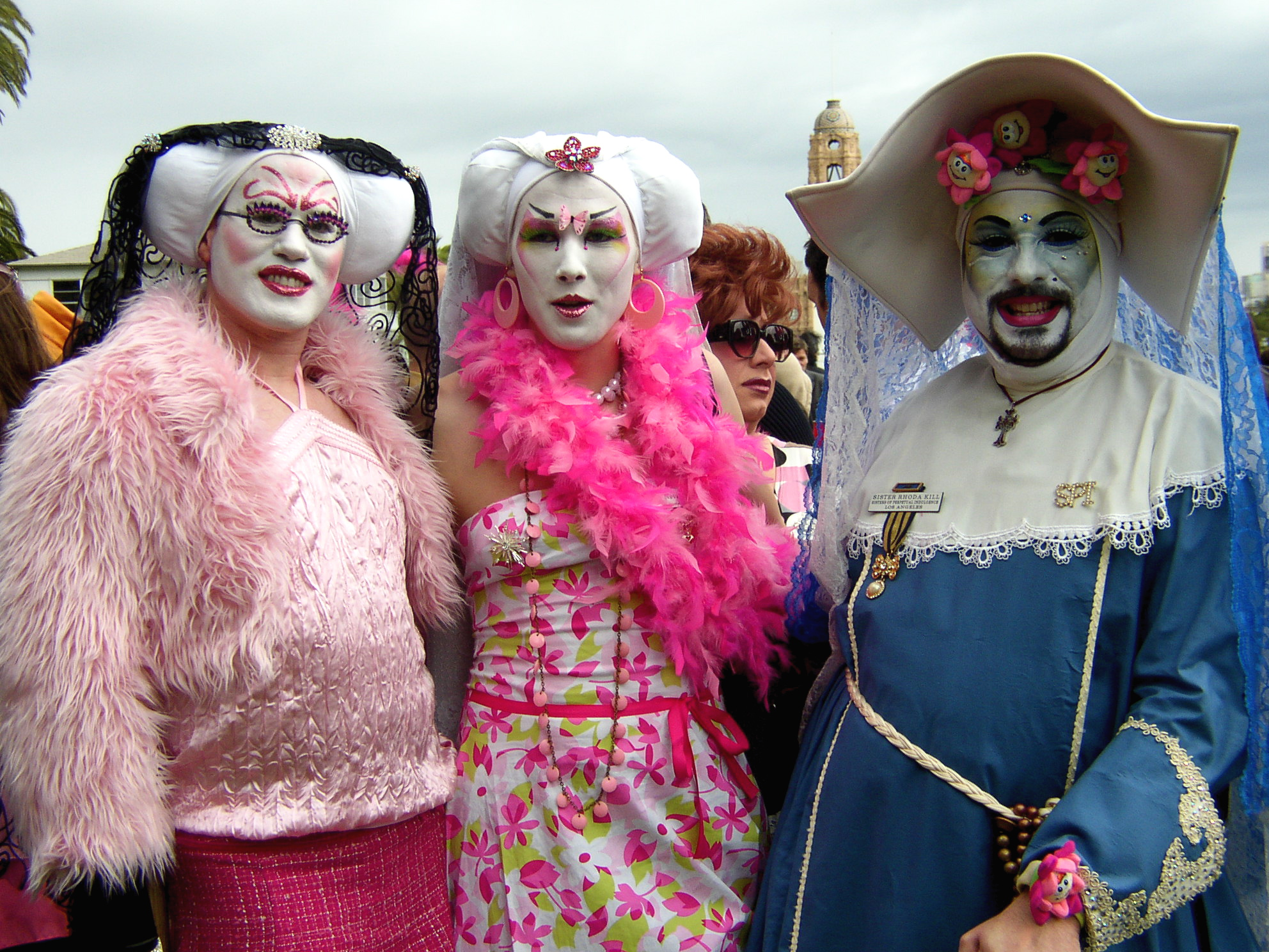 Sisters Risque of the Sissyteen Chapel (SF), Sister Viva L'Amour (SF), and Sister Rhoda Kill (LA)